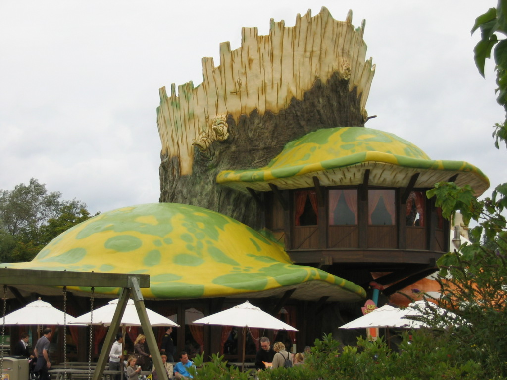 Plop's Hamburger Restaurant in Plopsaland De Panne. Picture taken by Tim Bekaert, 2006.